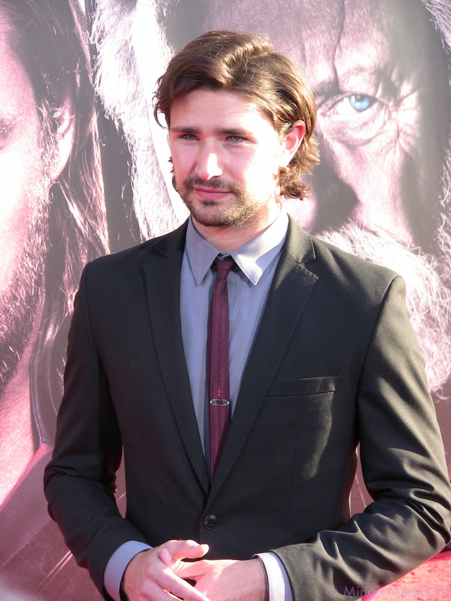 Matt Dallas at the world premiere for Thor in Hollywood Heights, Los Angeles, CA in June